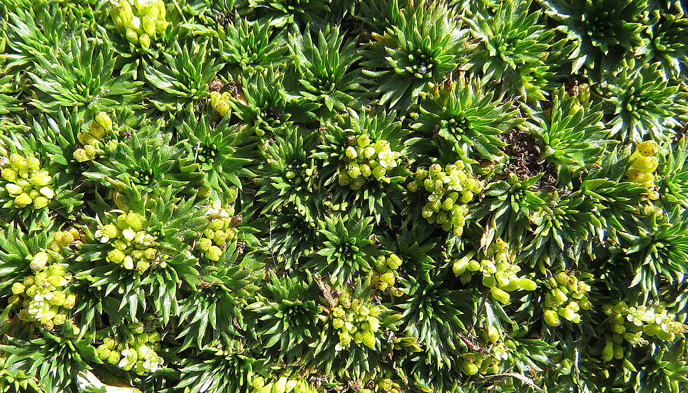 Found mainly in the paramos of Ecuador. Photo from near Chimborazo Mountain.